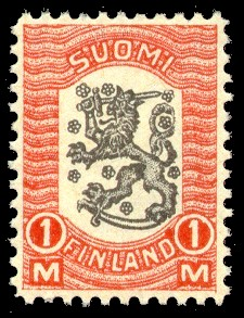 Finnish 1 mark postage stamp published in 1918 (so-called Vaasa design); Design by Matti Visanti